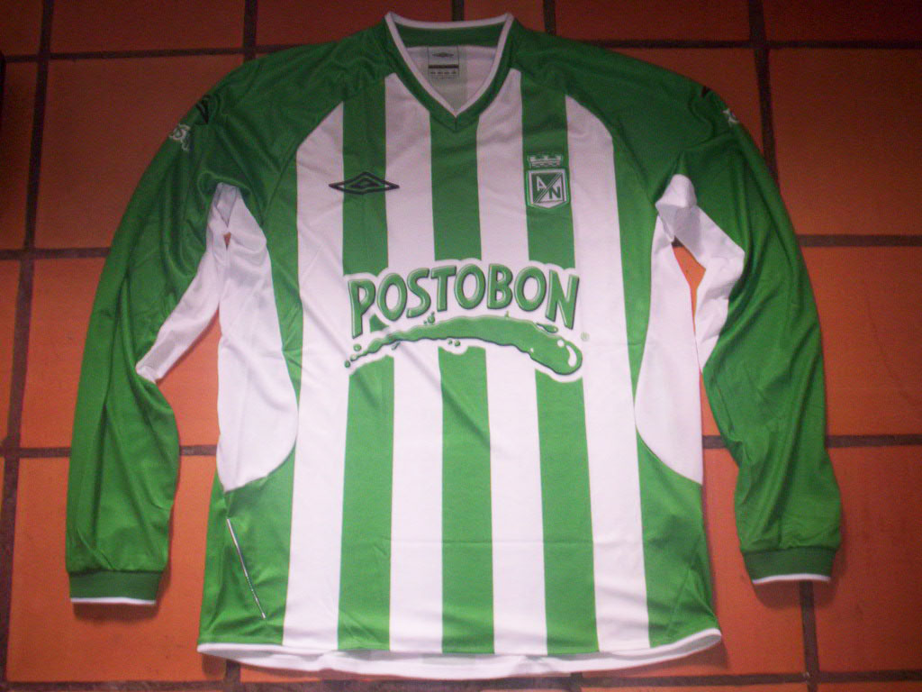 Atlético Nacional 2006 Home.